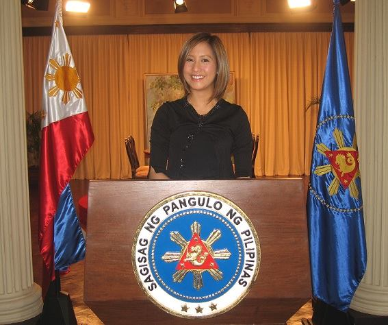 Jolina Magdangal at the Malacanang taping of The Working President.